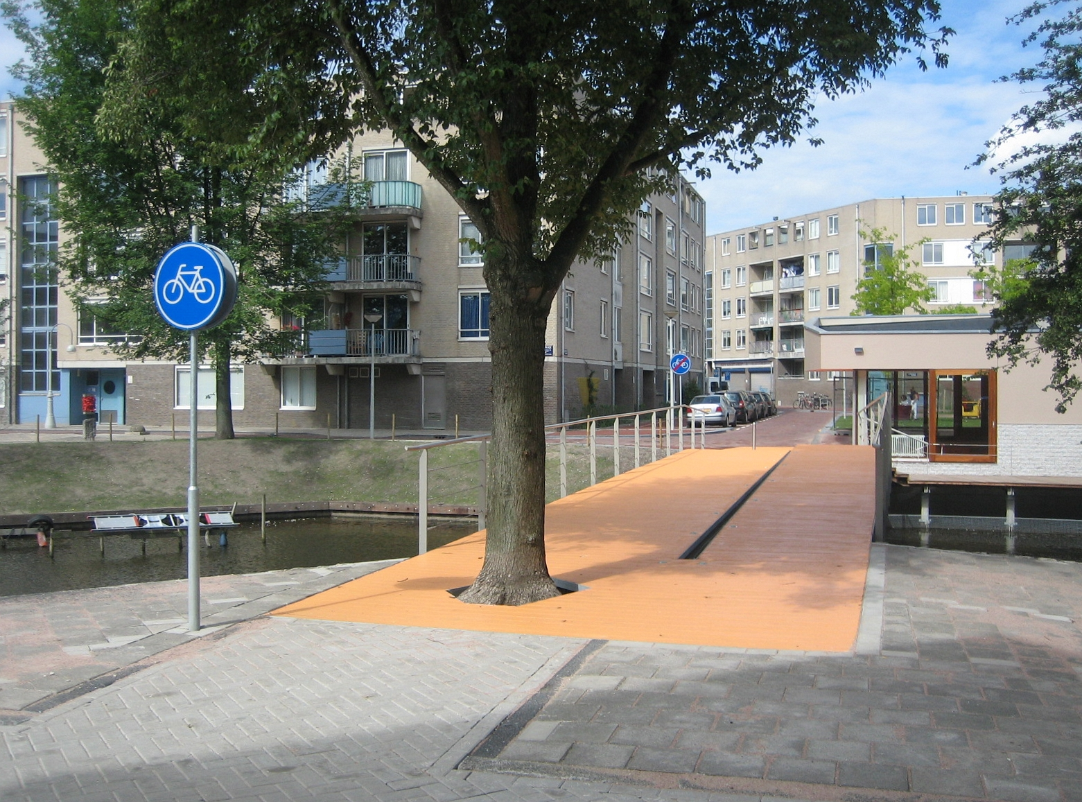 Bridge 1909 in Amsterdam, Netherlands.